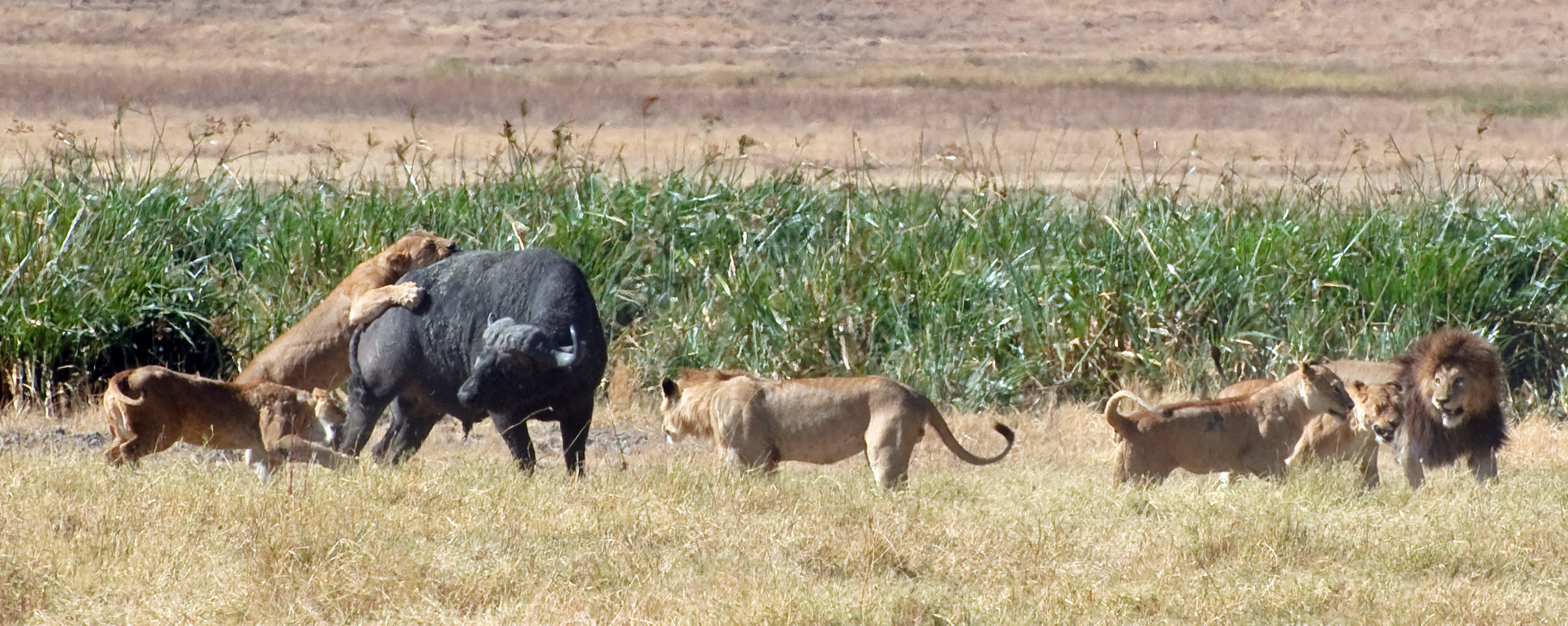 Lions hunting a buffalo in Tanzania.